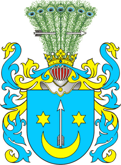 Herb Sas Clan File:POL COA Sas I.svg is a vector version of this file. It should be used in place of this raster image when not inferior. File:Herb Sas.jpg File:POL COA Sas I.svg For more information, see Help:SVG. In other languages